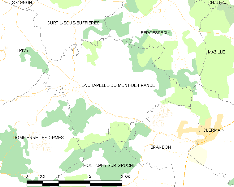 Map of French municipality